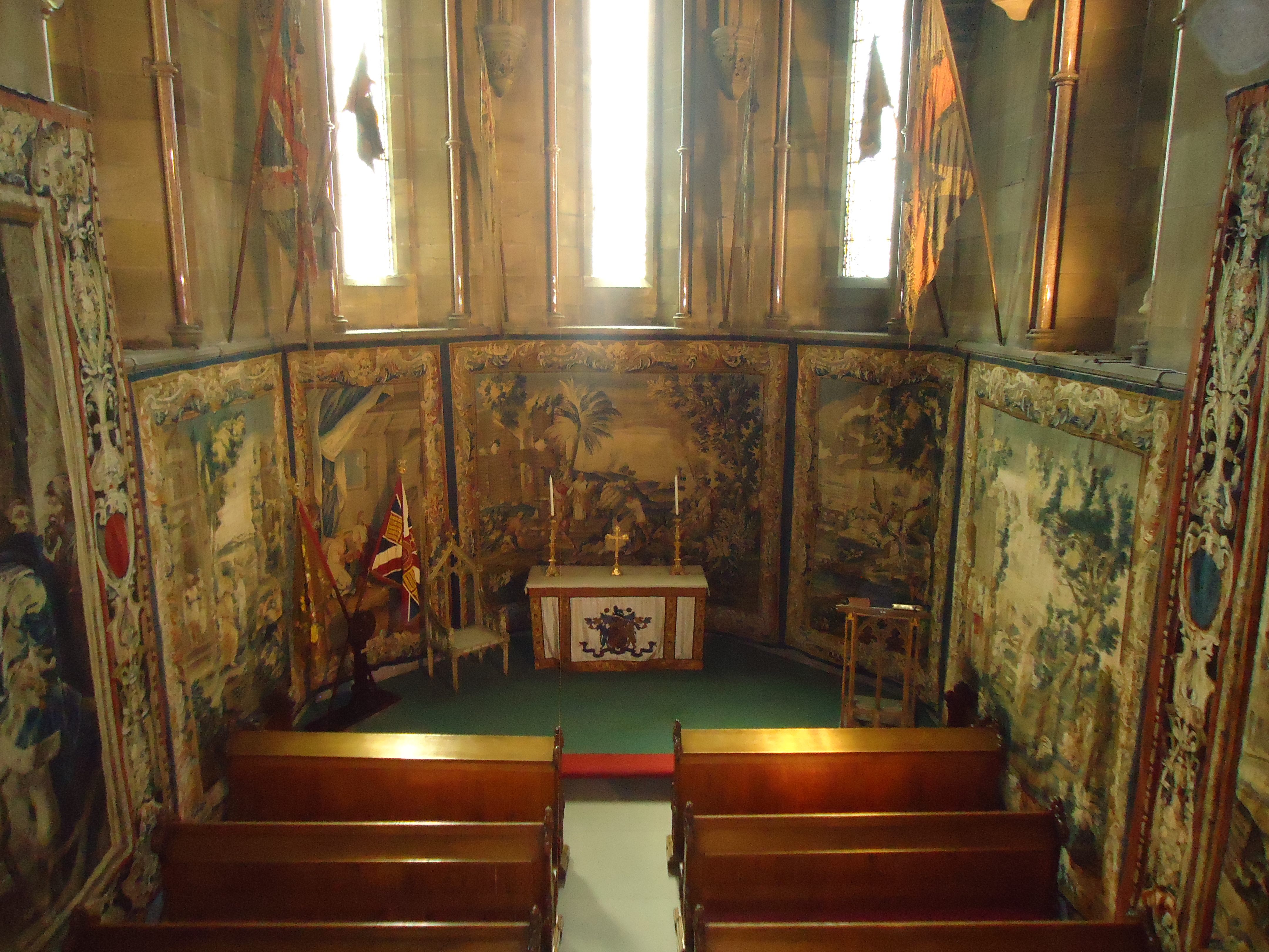 The church area inside of Alnwick castle in Alnwick, Northumberland